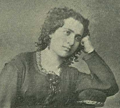 Srpouhi Dussap (Vahanyan) (1840-1901)